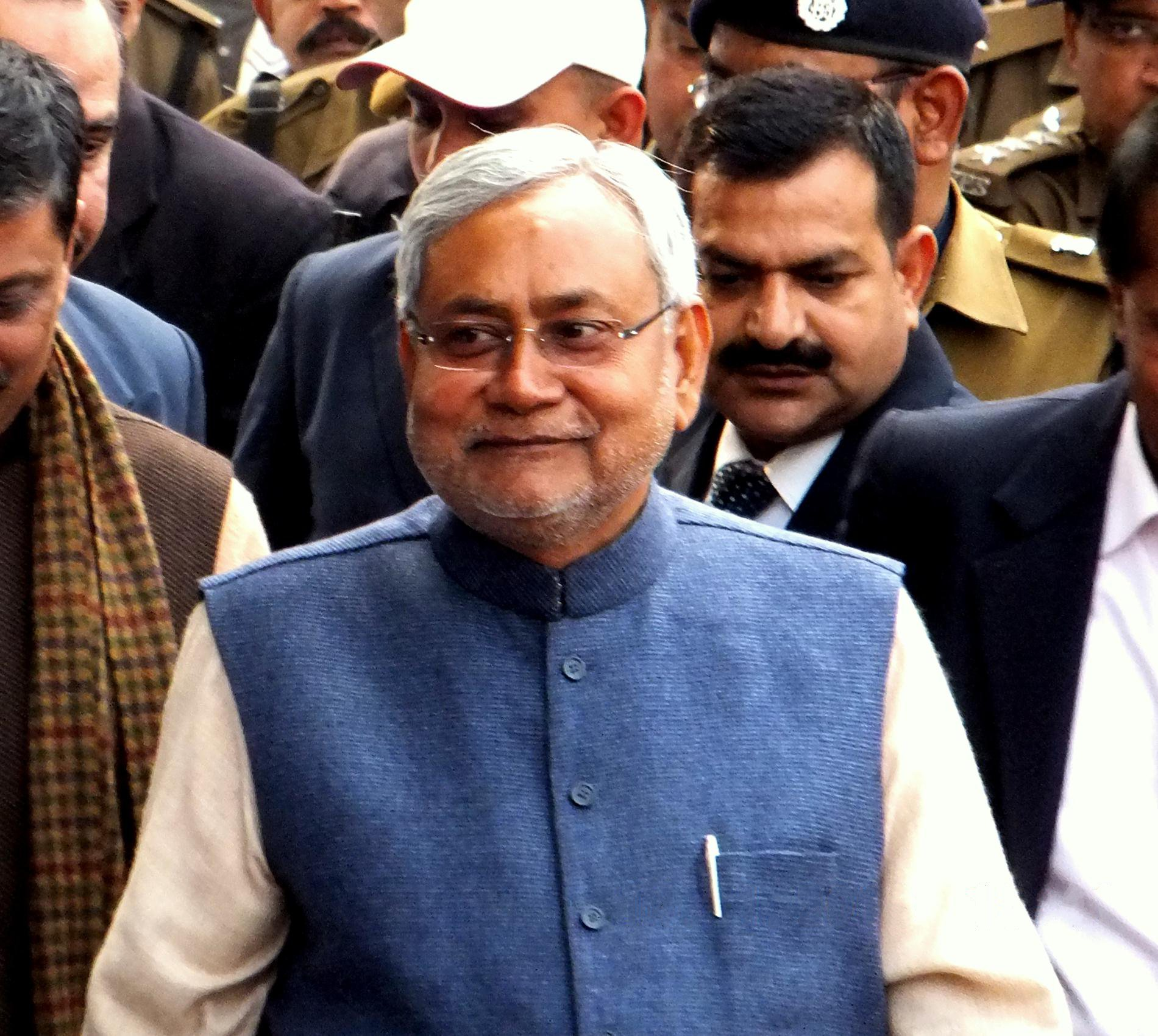 Nitish Kumar, Chief minister of Bihar state, India